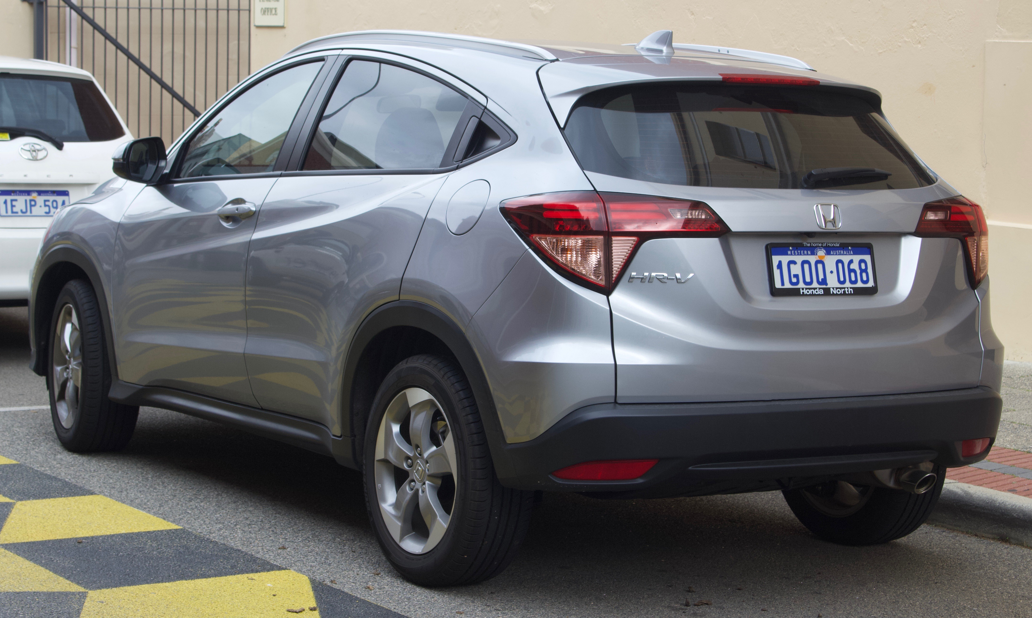 2018 Honda HR-V VTi-S wagon. Photographed in Fremantle, Western Australia, Australia.